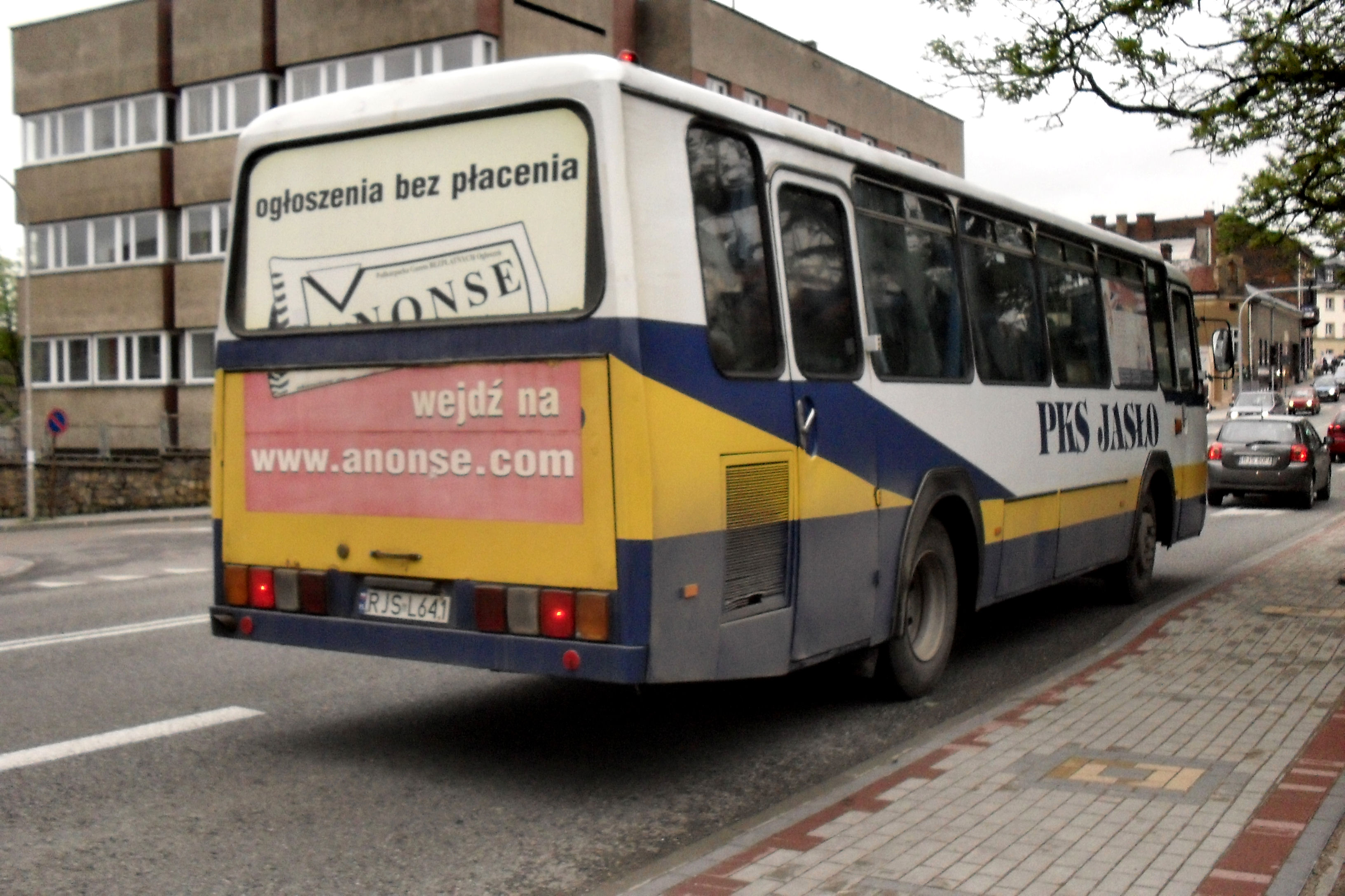 Autosan H10-10P bus (#J20008, reg. RJS L641) prototype in Jasło, Poland, built in 1989. It belongs to PKS Jasło.